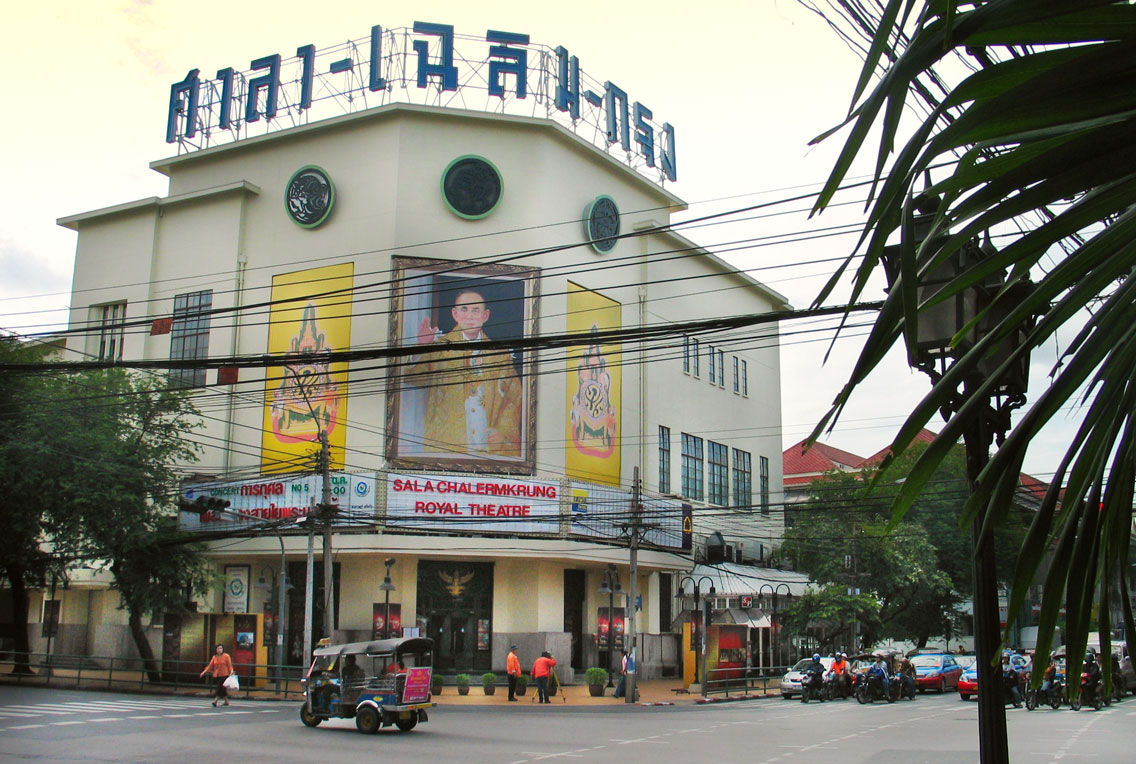 Sala Chalermkrung Royal Theatre, Bangkok's oldest cinema. Thailand